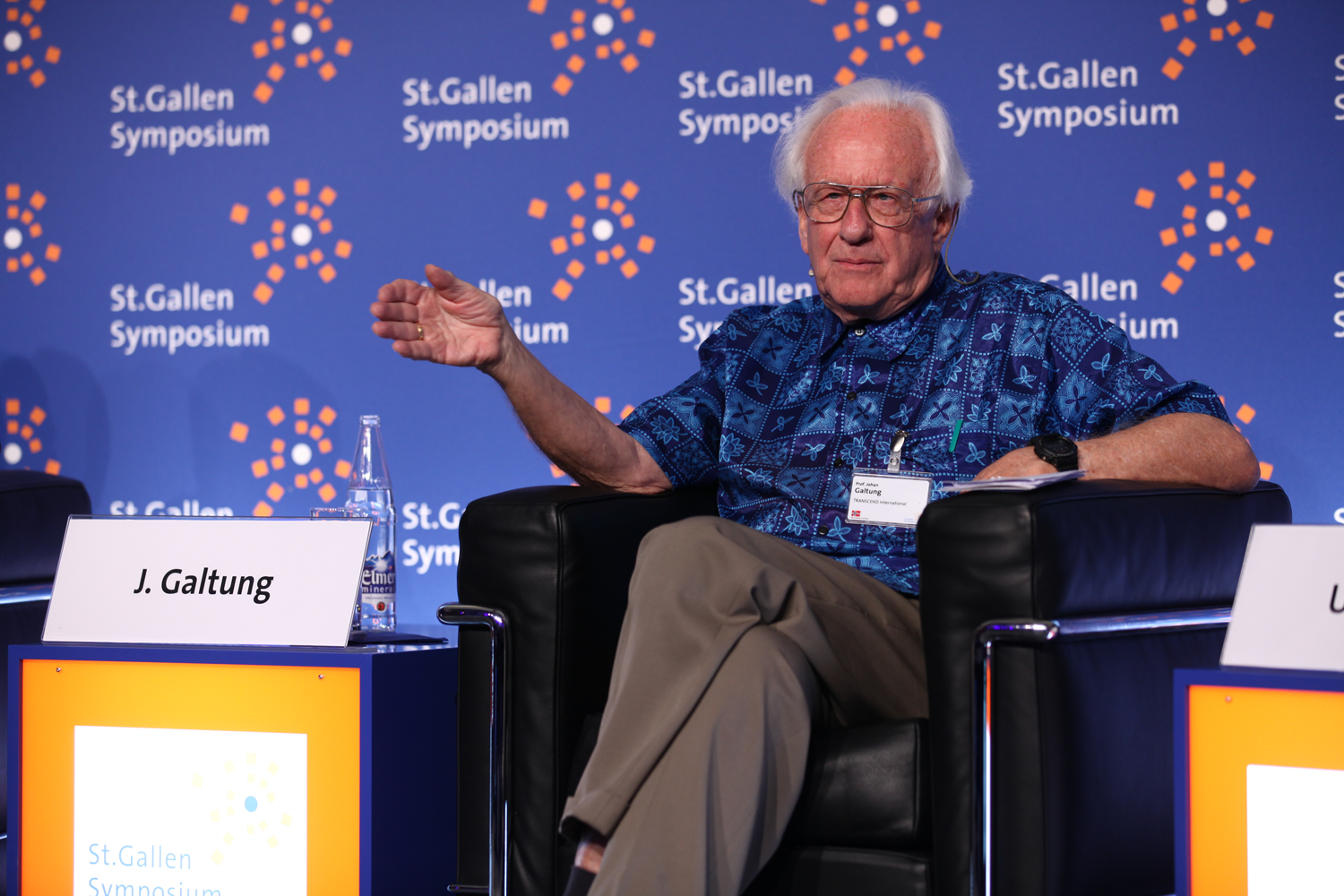 Johan Galtung in May 2011 at the 41. St. Gallen Symposium at the University of St. Gallen